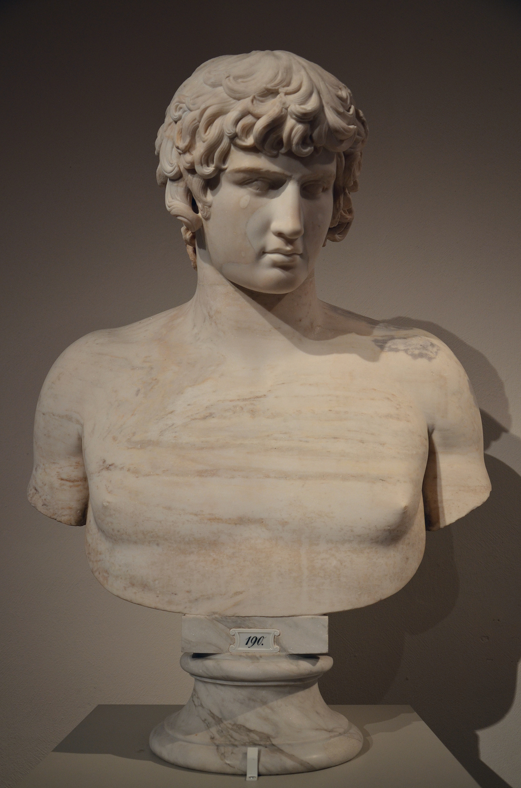 Bust of Antinous, 130 - 140 AD, from Rome, Altes Museum, Berlin